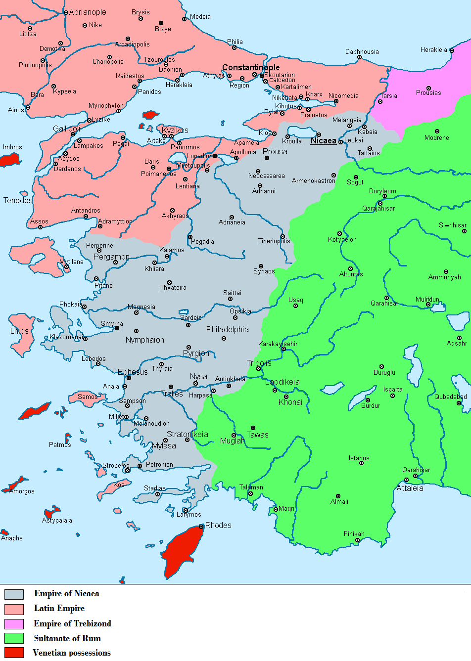 Empire of Nicaea (1204)